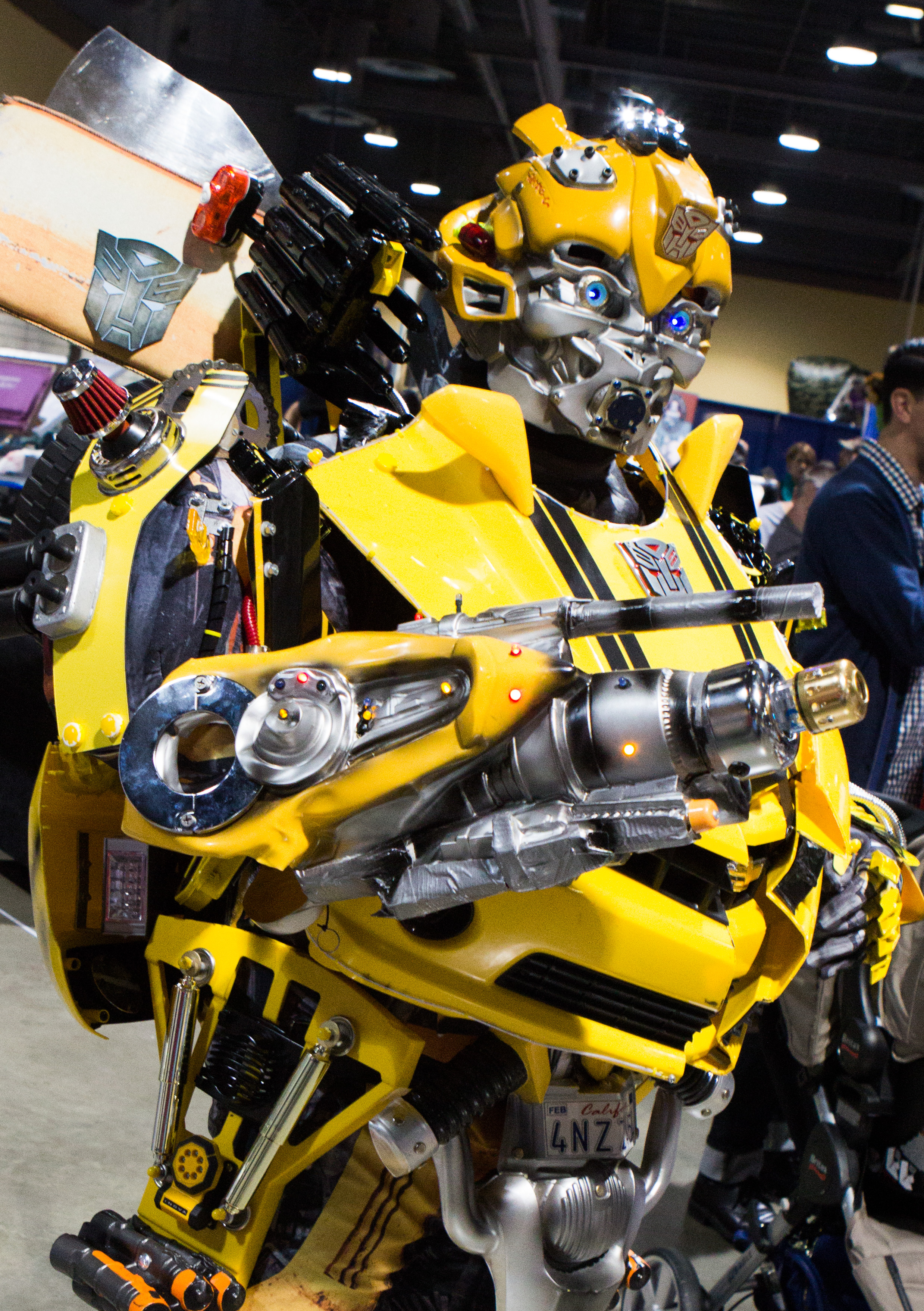 Bumblebee Cosplay at Long Beach Comic Con 2013.